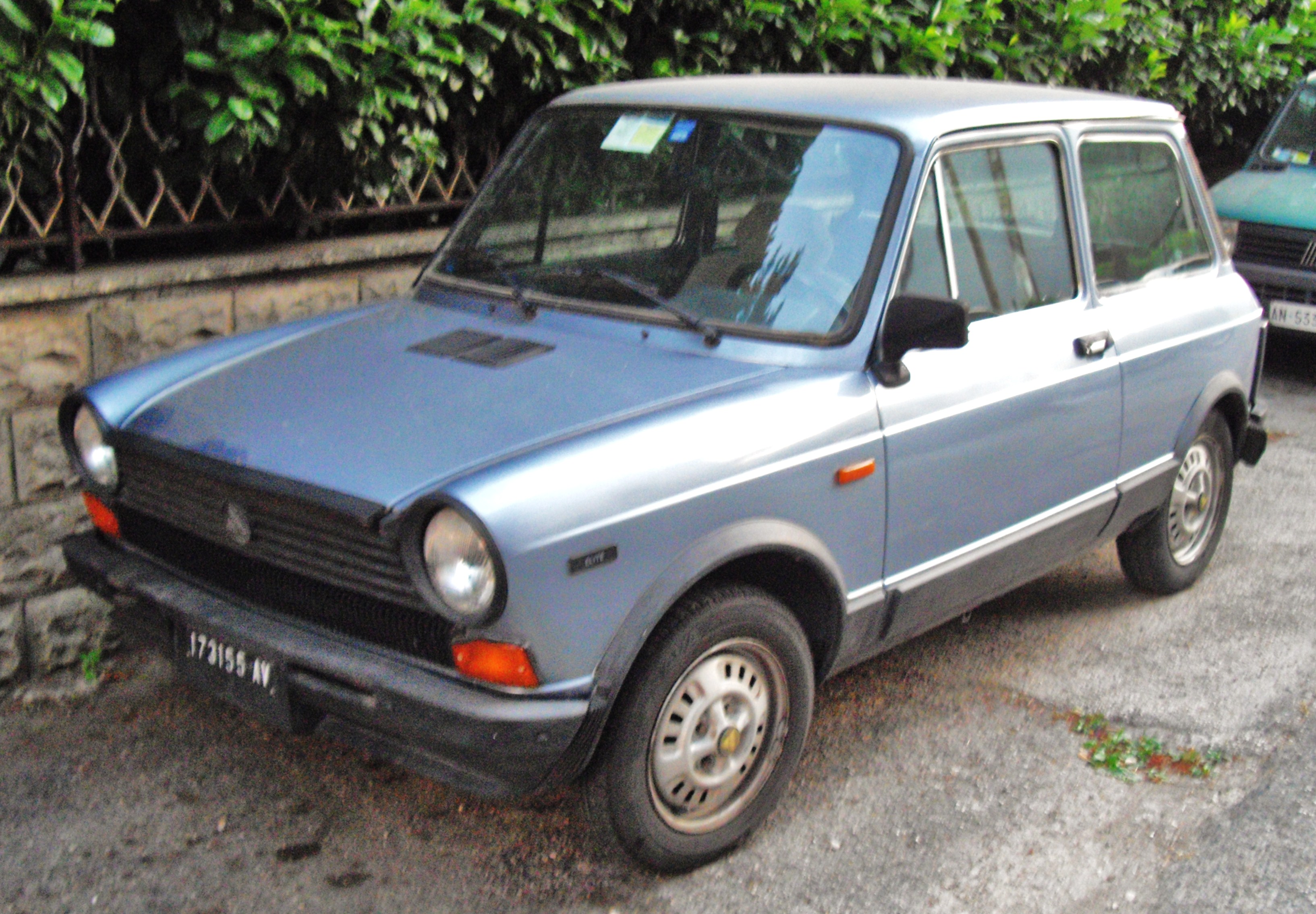 Autobianchi A112 Elite front